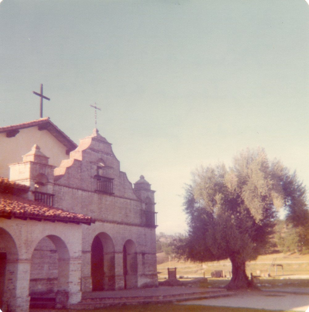 Mission San Antonio de Padua near Jolon, California, circa 1975